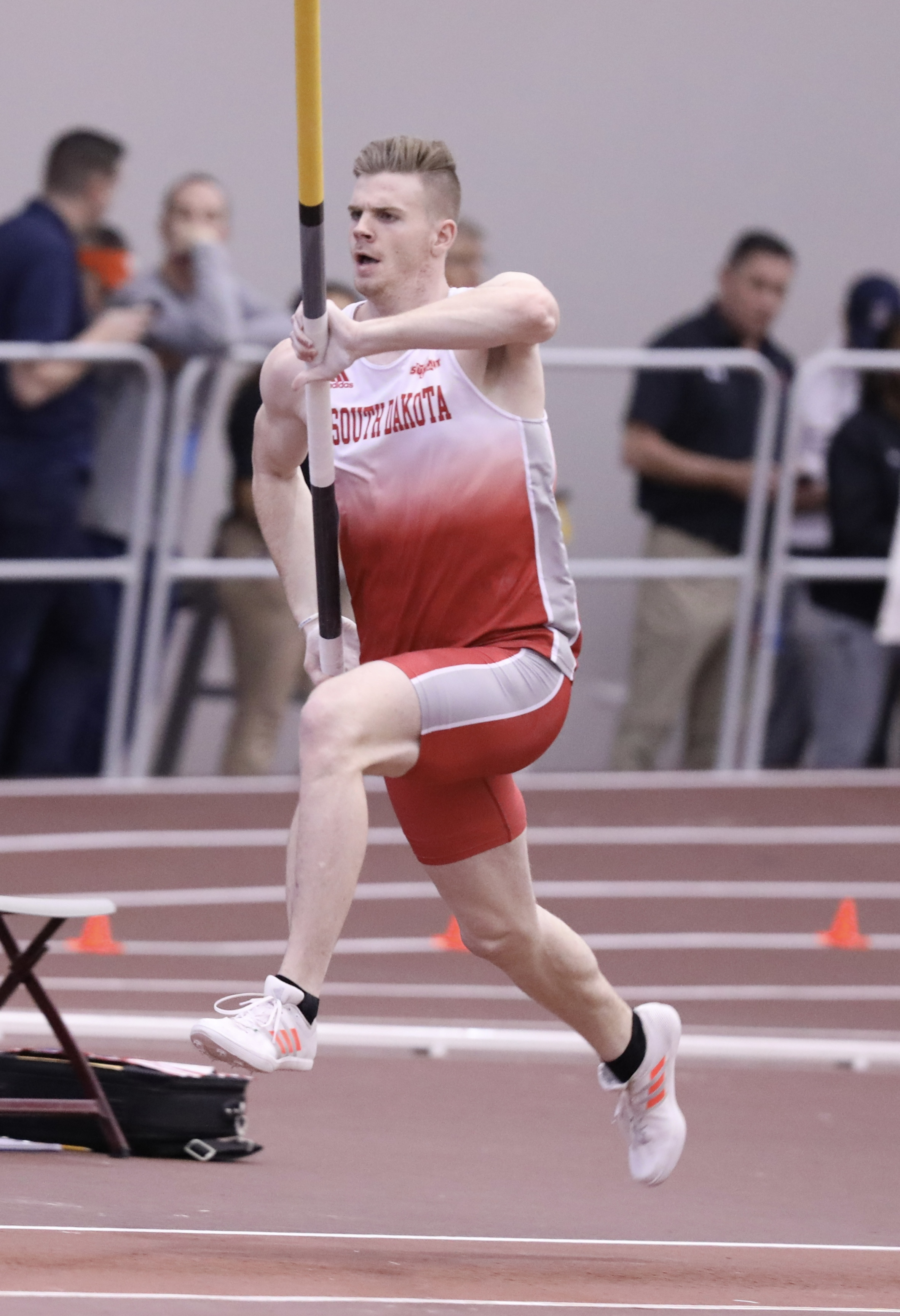 2018 NCAA Division I Indoor Track and Field Championships